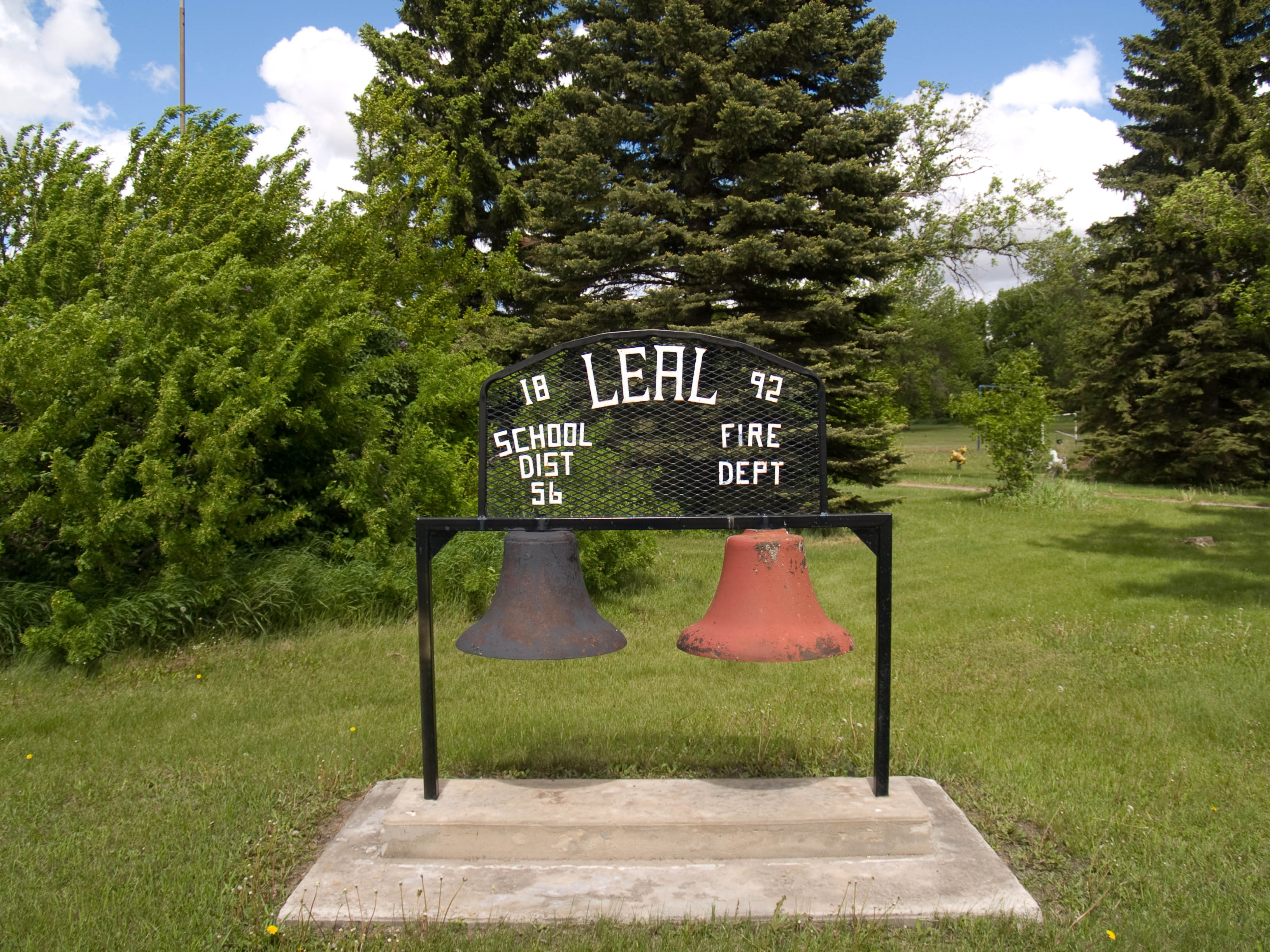 Bells outside a park in Leal, North Dakota. From